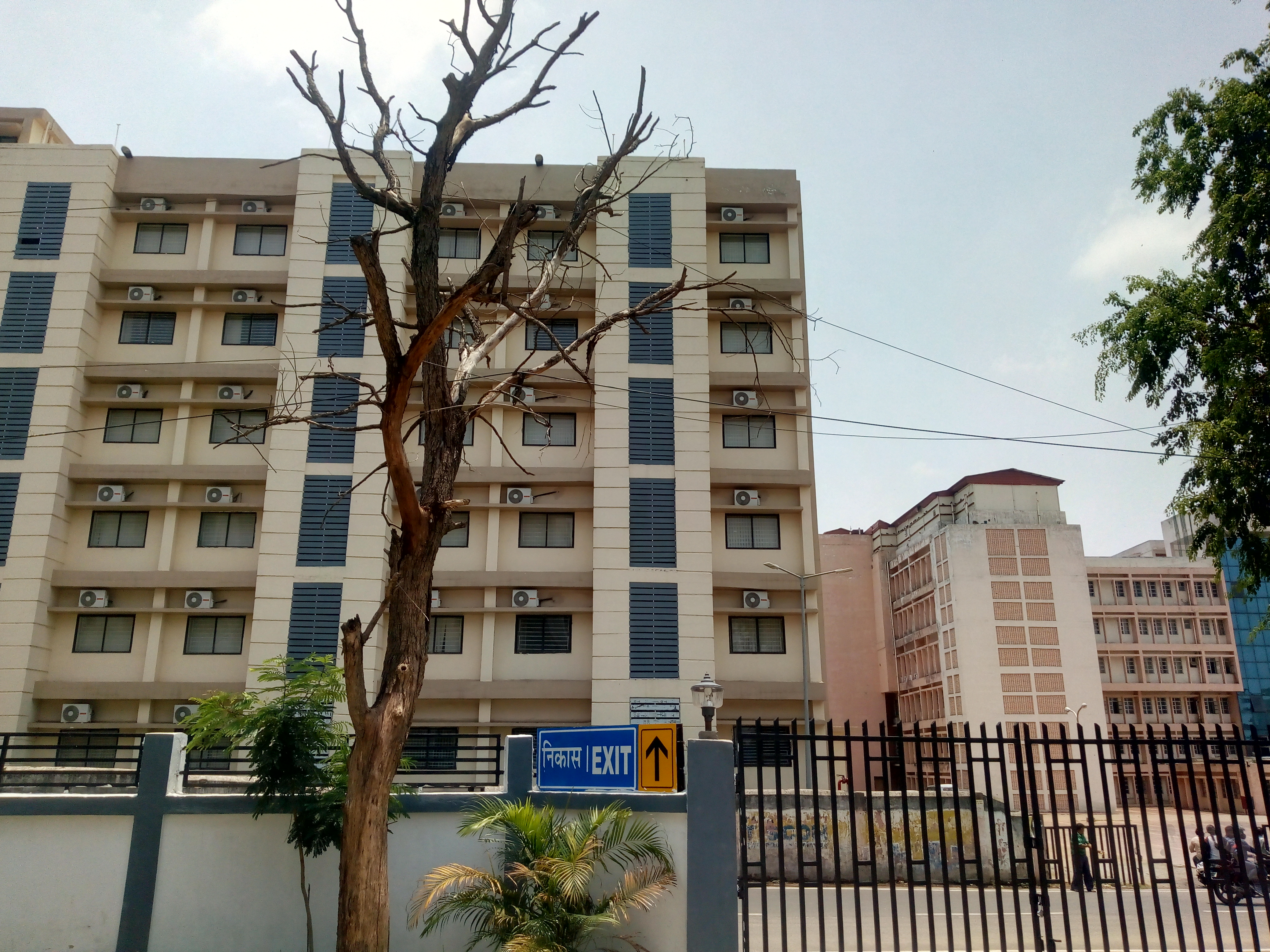 Paying ward and superspeciality block